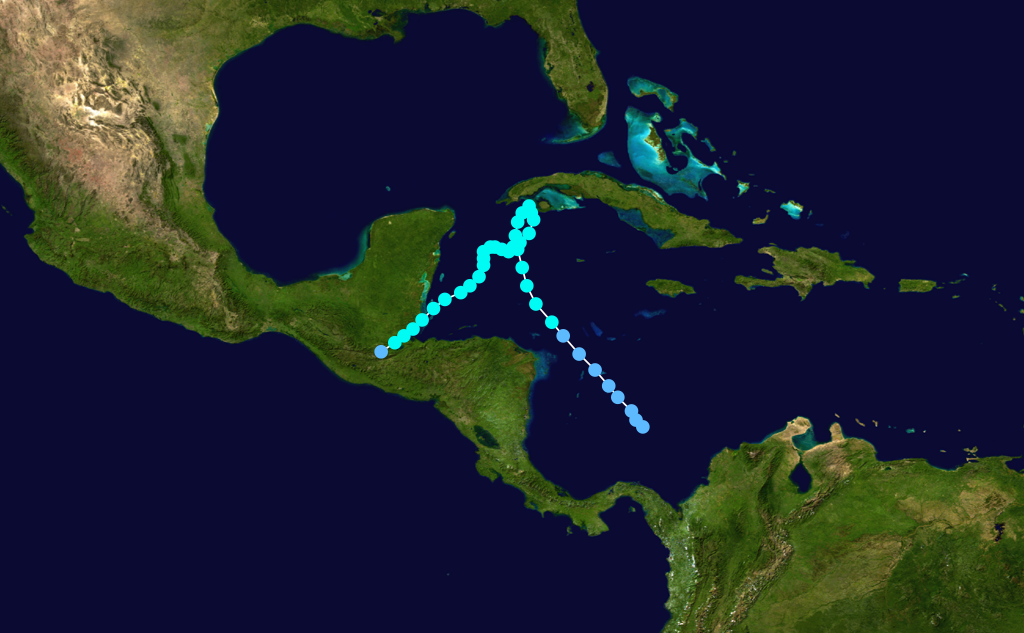 Tropical Storm Laura (1971) track. Uses the color scheme from the Saffir-Simpson Hurricane Scale.